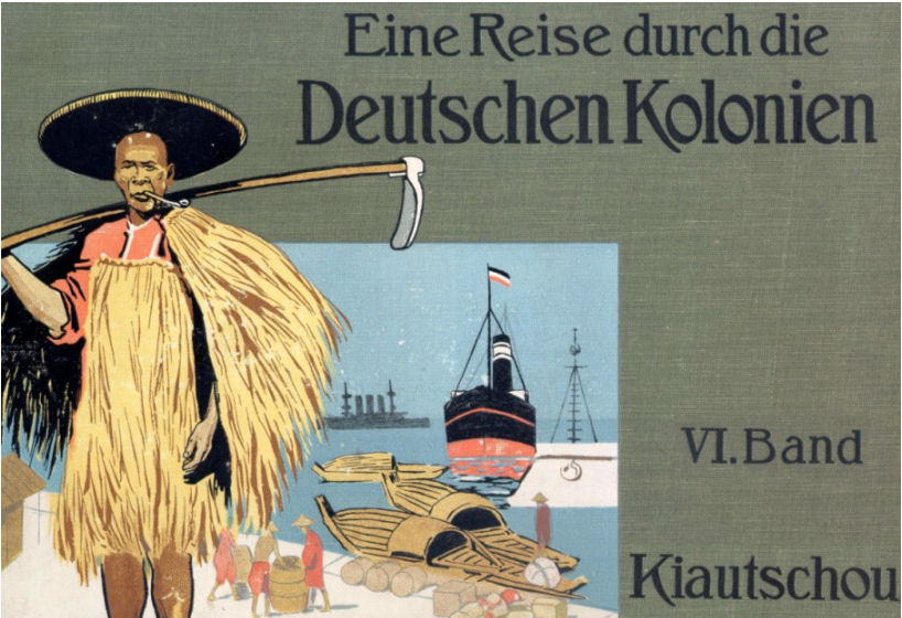 former German colony Kiautschou (Qingdao)